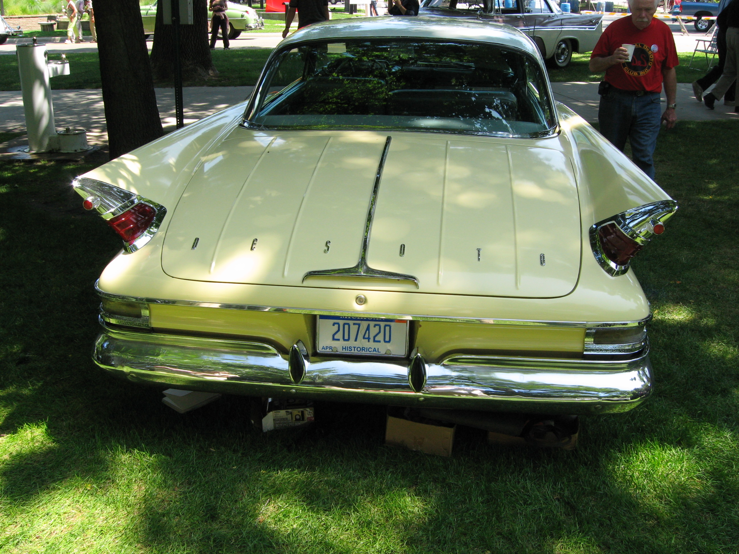 1961 DeSoto 2-doors hardtop, rear view.